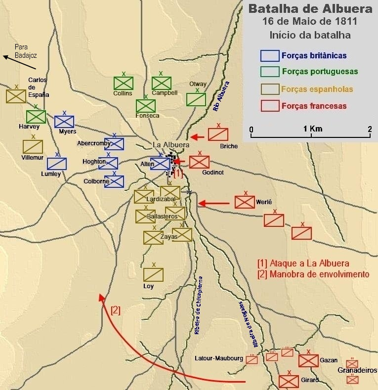 Map of the Battle of Albuera (May 16, 1811) - the start of battle